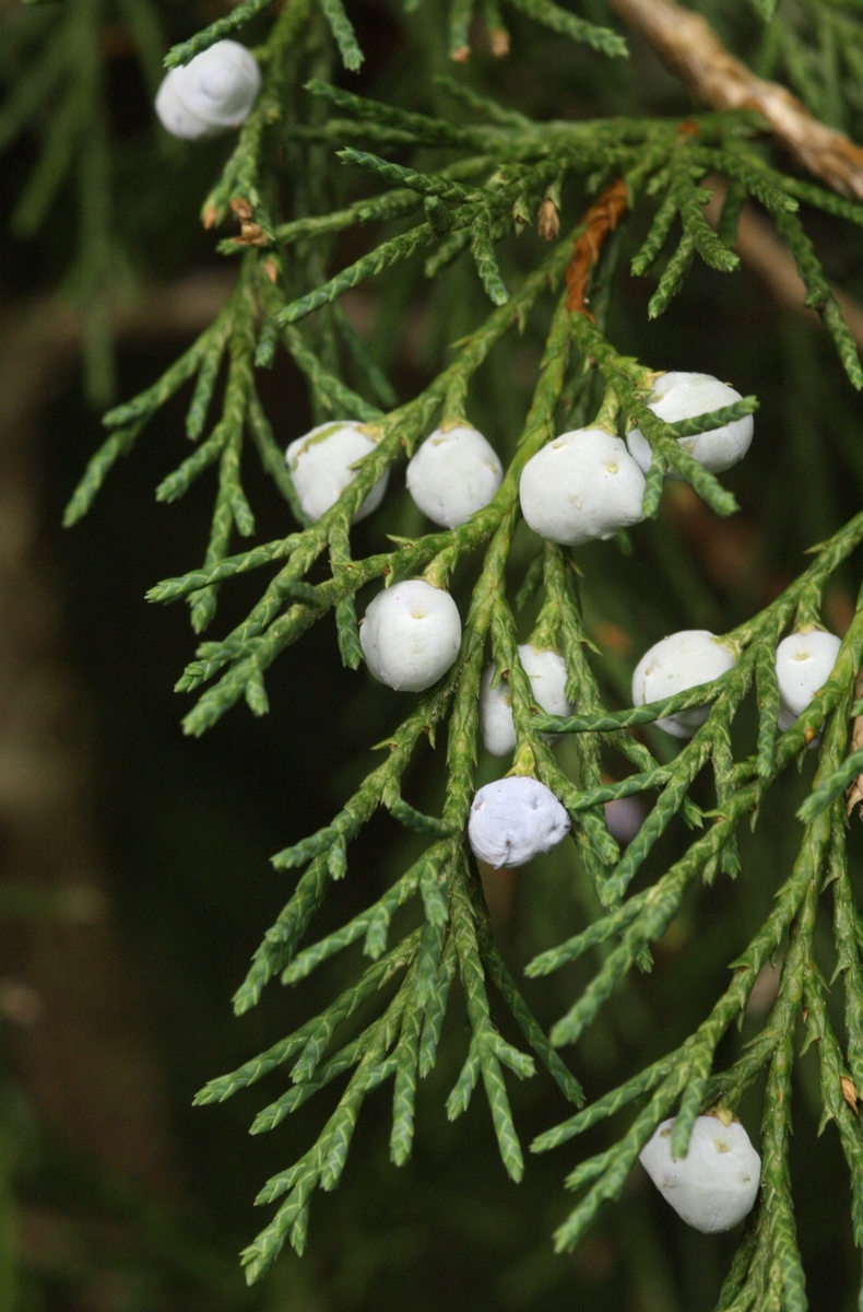 Fruiting branch of Juniperus semiglobosa, Dendrological garden in Pruhonice, Czech Republic